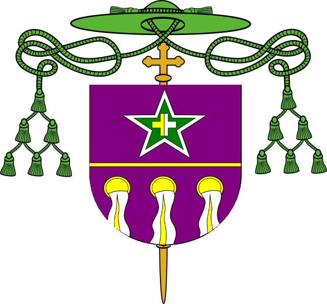 Coat of arms of Anton Eltschner, Auxiliary Bishop of Prague 1933-1961